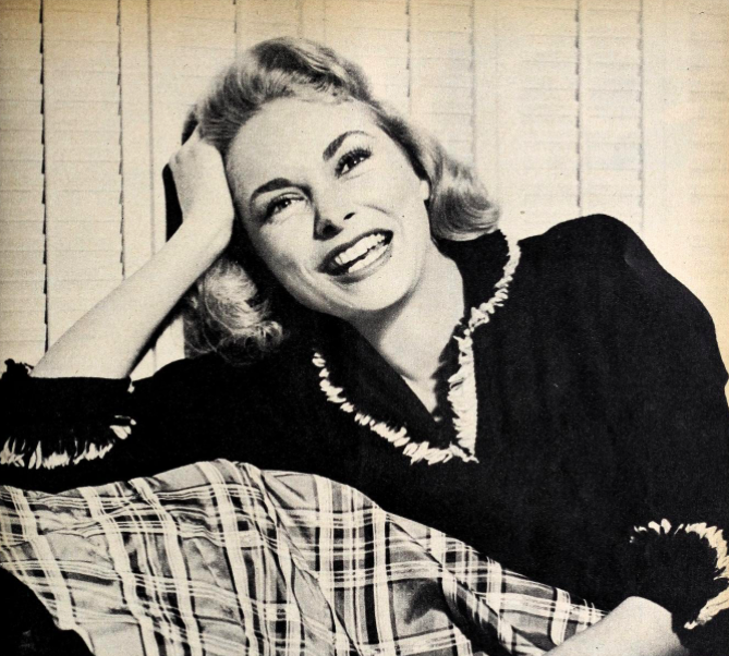 Janet Leigh in 1955 Photoplay story